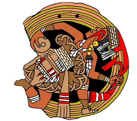 Mississippian culture S.E.C.C. Chunkey player design based on an engraved shell gorget found at the St. Marys Mound Site in Perry County, Missouri,[1] digital illustration by the artist Herb Roe.